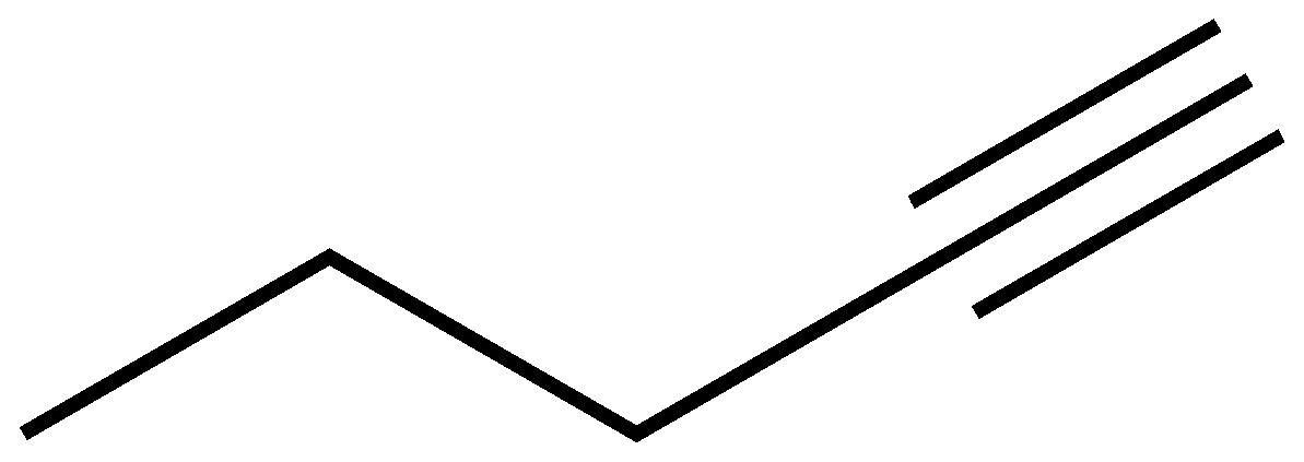 chemical structure of 1-pentyne